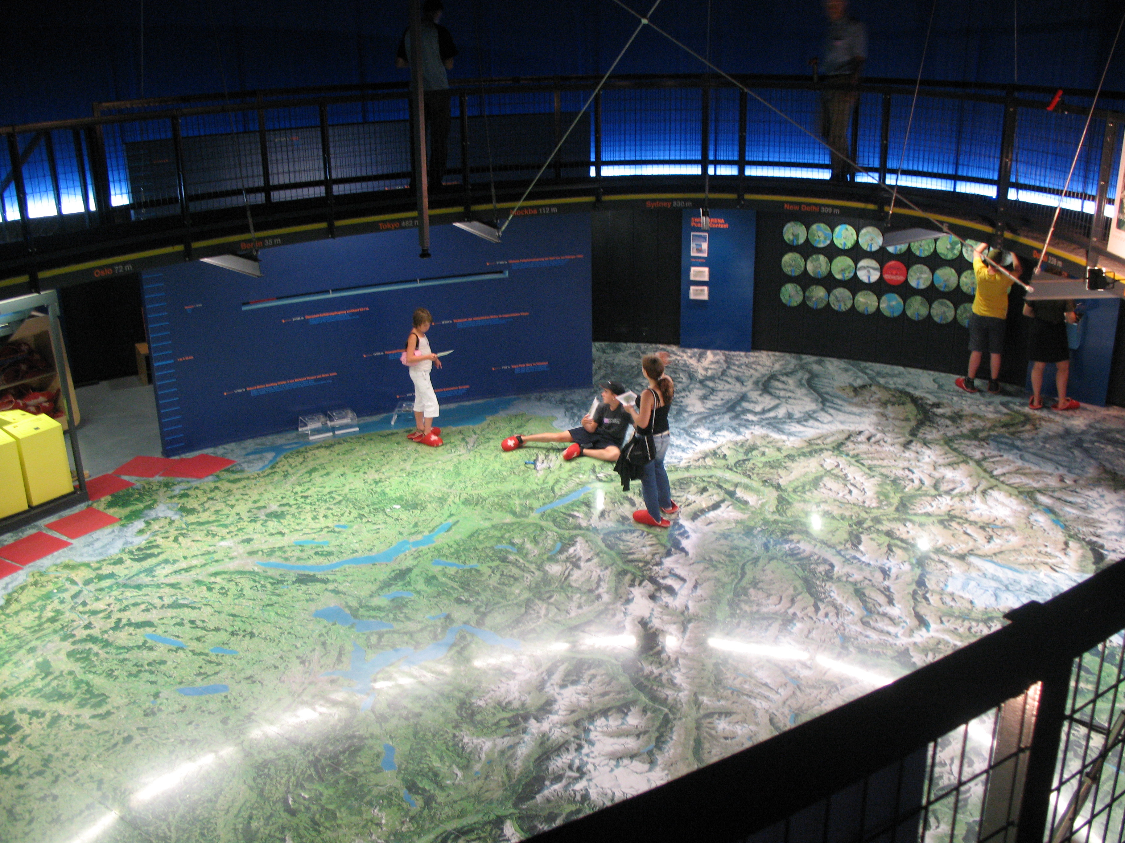 Swiss Arena (a 1:20,000 aerial photograph of Switzerland) in the Swiss Transport Museum, Luzern, Switzerland